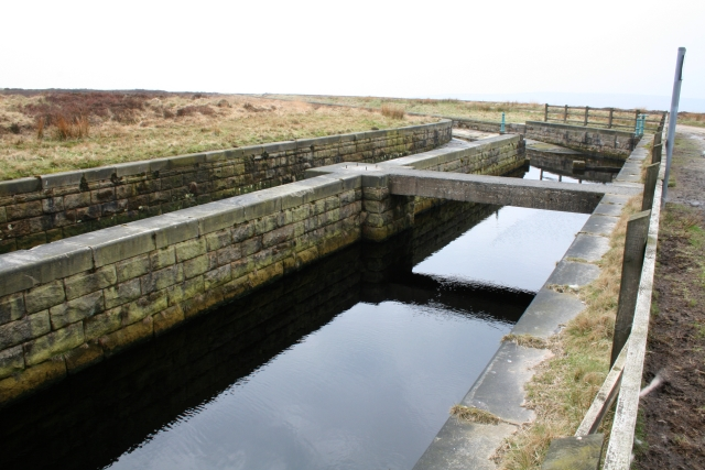 Silt Traps in the Warland Drain From here the water pours into the Warland Reservoir a few hundred yards to the south. Prior to this happening, silt and other debris would have the opportunity to settle to the bottom of these tanks instead of making it into the reservoir and thus diminishing its capacity. Originally, the silt would be dredged from these tanks periodically.